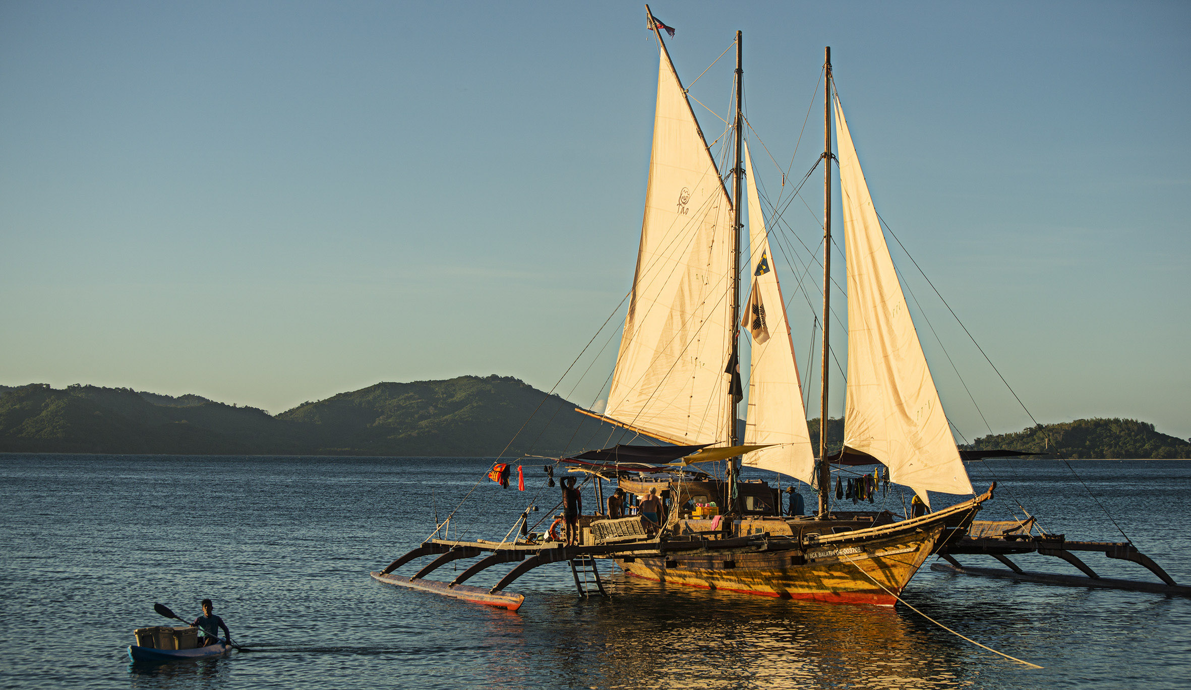 Day 2 Palawan - Tao Farm More travels